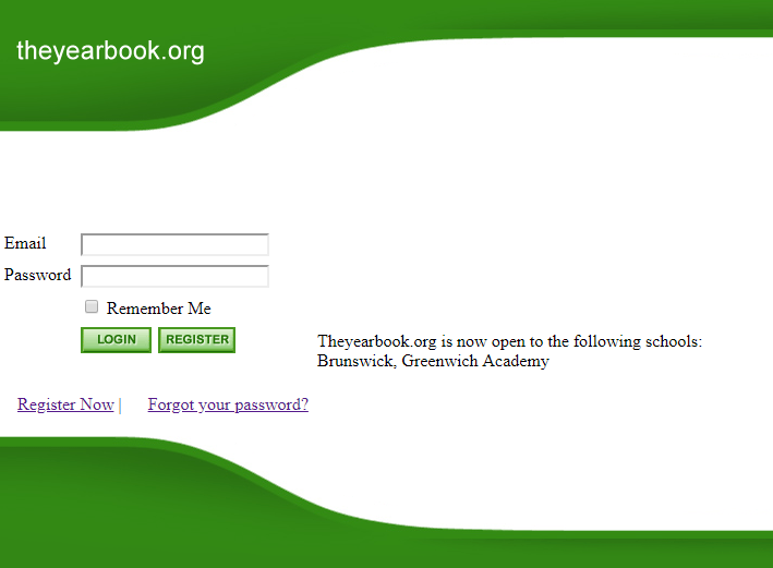 Screenshot of as fashioned from information on for the domain in February 2005.